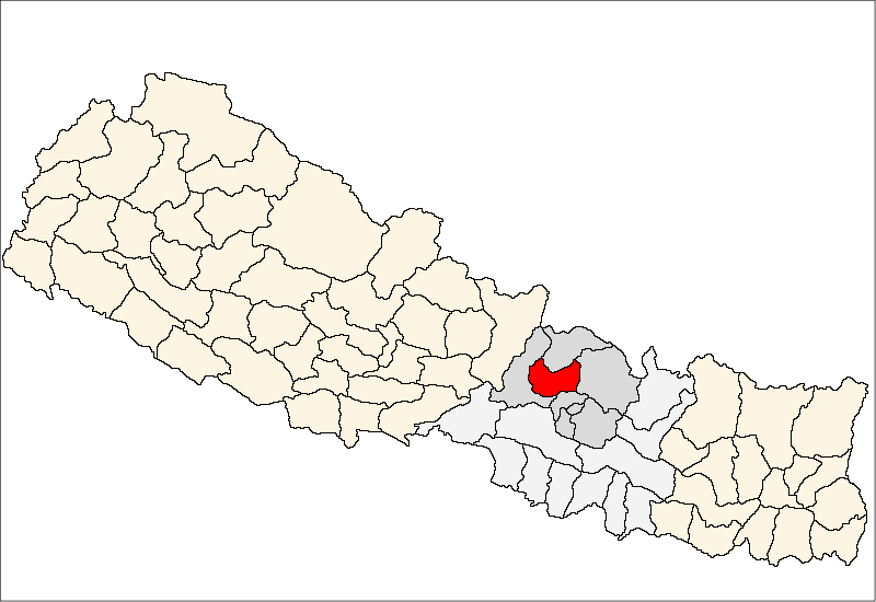 FrenchCarte de localisation dudistrict de Nuwakot(wp-FR),au Népal (wp-FR).EnglishLocation map ofNuwakot District(wp-EN),in Nepal (wp-EN).